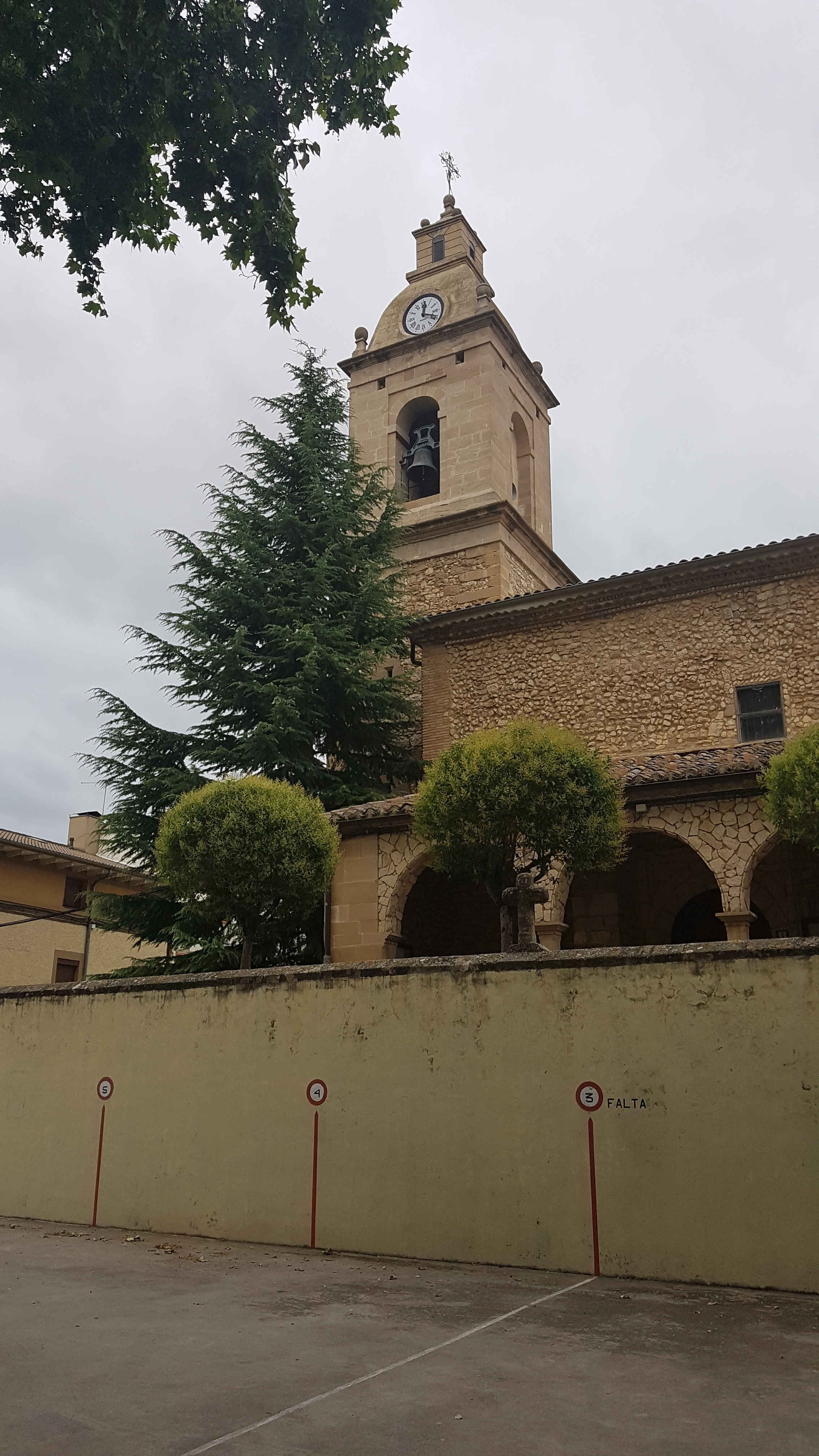 Church of Saint Stephen of Murieta seen from the fronton